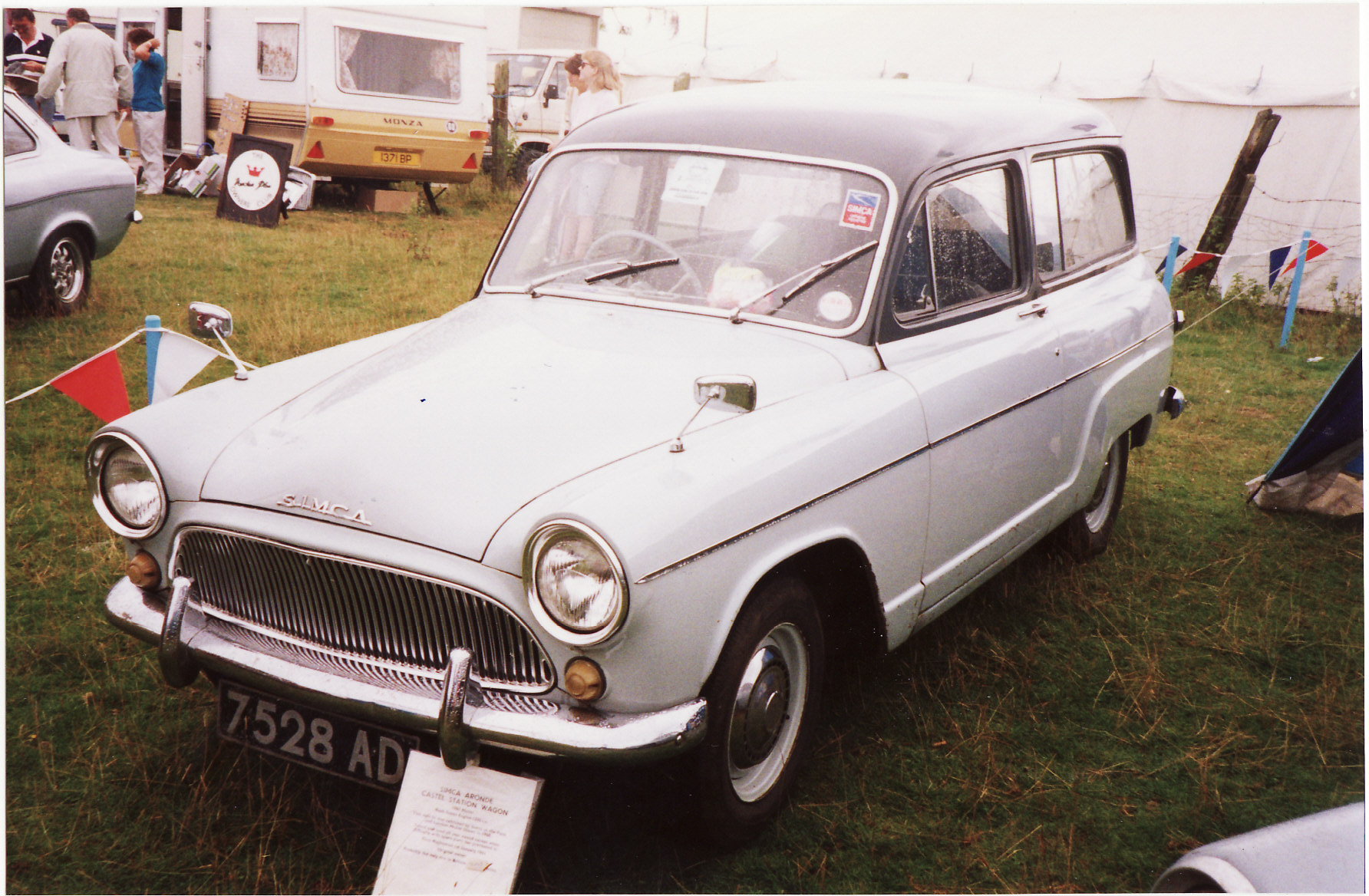 Spotted at Yeovil Festival of Transport, August 1991